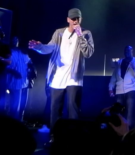 Eminem performing at the DJ hero party with D12 on June 1, 2009